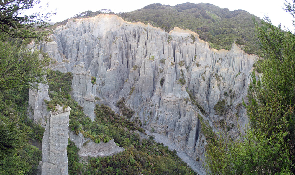 View overlooking the Putangirua Pinnacles, in New Zealand's Wairarapa district.